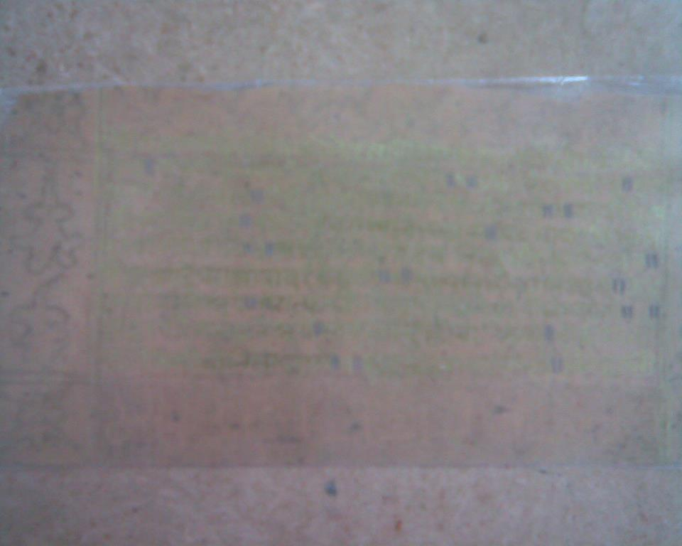 श्री कल्याण स्वामींचे शिष्य श्री केशव स्वामी यांच्या हस्ताक्षरातील दासबोध.तो सोनेरी व चंदेरी शाईने लिहिला आहे.